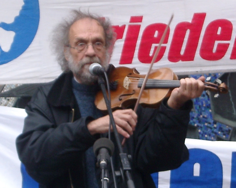 Klaus der Geiger ("Klaus the violon player"), German violonist, political song writer, here on Easter march in Düsseldorf (Marktplatz) Easter Saturday April 15th, 2006.